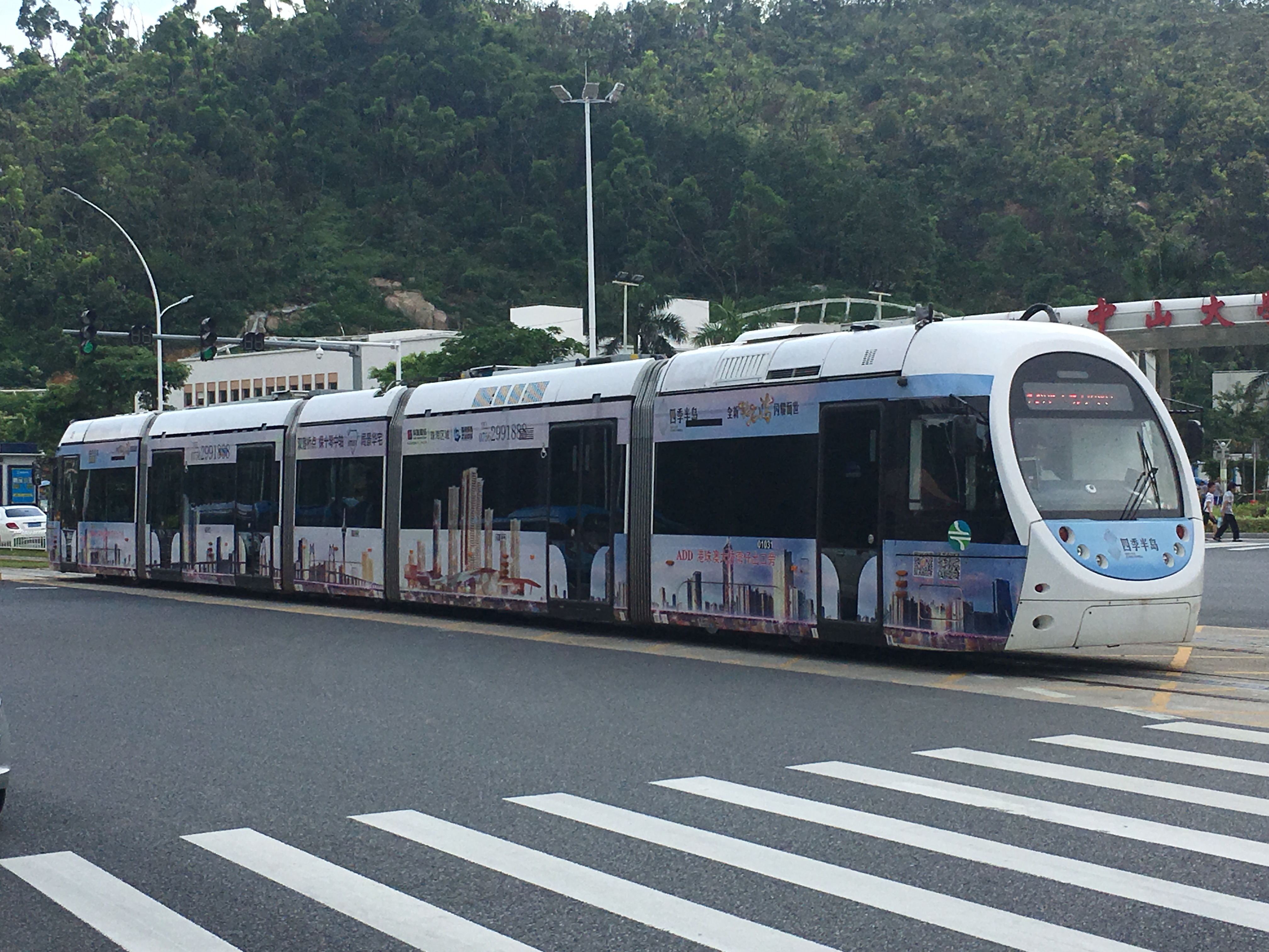 中文（香港）: This photo is taken in Zhongda Wuyuan.